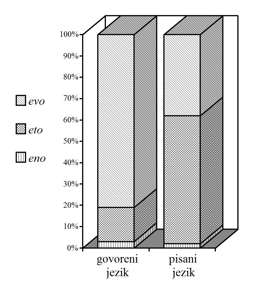 Serbo-Croatian translation of the file File:Frequency of demonstratives.jpg